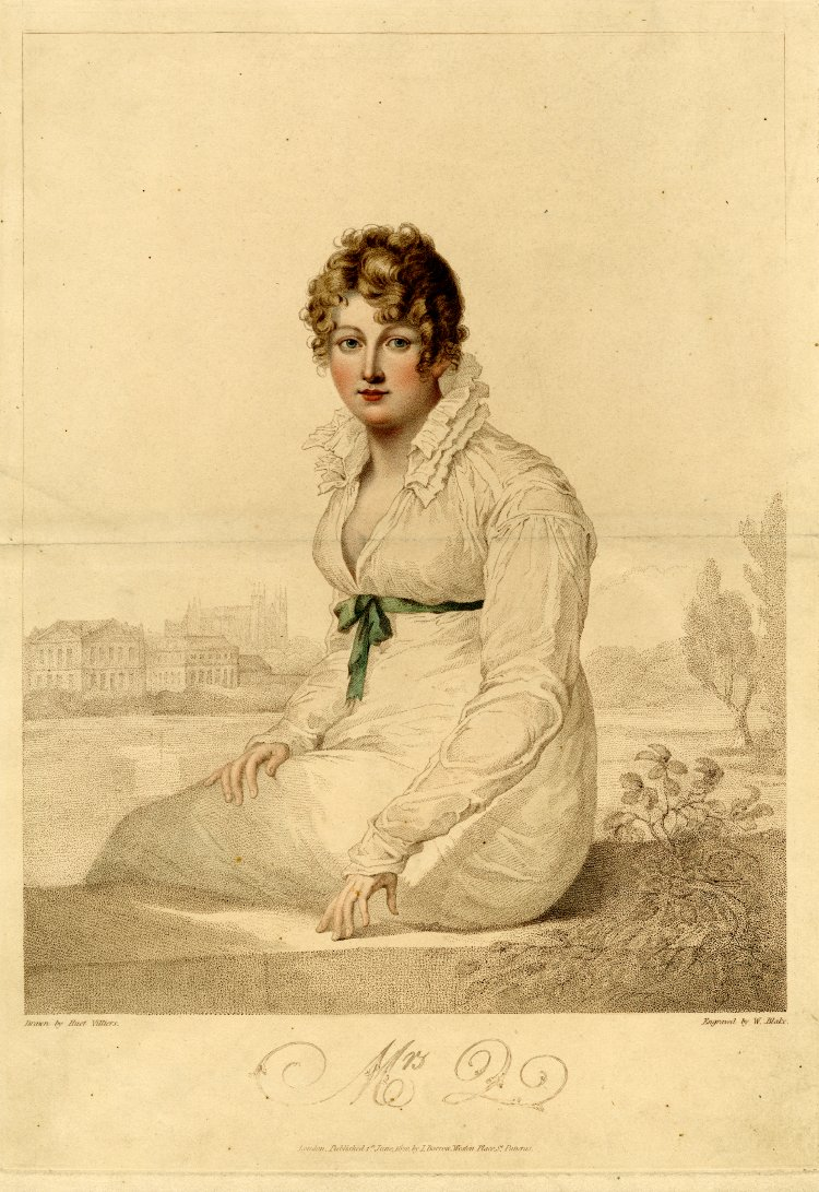 William Blake: Mrs. Q. (Mrs. Harriet Quentin) 1820 engraving ibased upon a portrait by Francois Huet Villiers The British Museum With Blake’s name in the plate. Ref: Essick XLII ii/ii S 356 x 259 mm; P 351 x 250 mm; I 295 x 230 mm Stipple engraving by William Blake, with etching and mezzotint – printed in colours and coloured by hand. Mrs.Q is probably the best known decorative print executed by William Blake, primarily due to the large number of facsimile reproduction impressions which were printed of this image in 1806. William Blake’s engraving is based upon a portrait by Francois Huet Villiers. The subject of Mrs.Q is Harriet Quentin, the wife of colonel Quentin and mistress to George IV when Prince Regent. The view in the background is thought to be the Thames at Eton, with the college chapel beyond. The miniature portraitist Villiers had died in 1813, thus this portrait must have had been drawn or painted at least seven years prior to the publication of this plate.